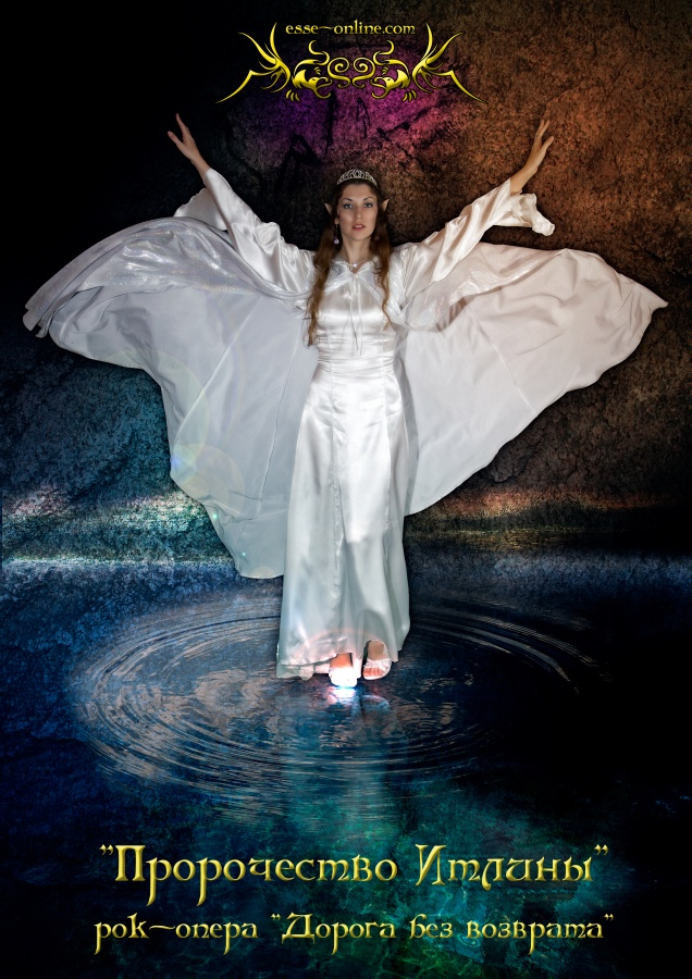 "Itlina Prophecy". Fantasy rock musical of group "ESSE" - "Road without return". Musical based on A.Sapkovsky's saga "The Witcher". Official poster to the first scene. Olga Strukova (Lara Dorren aep Shiadhal). Photo - Yury Osadchy. Retouch - Timur Umanets